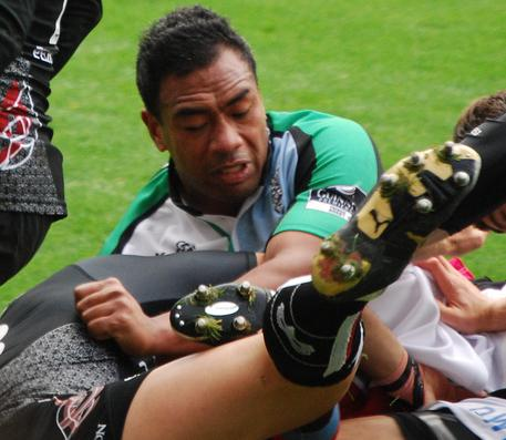 Epi Taione during the EDF Energy Cup game against the Ospreys on the 5th of October 2008.